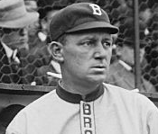 Baseball player Bill Dahlen of Brooklyn (NL) in 1910. Cropped version of original image.